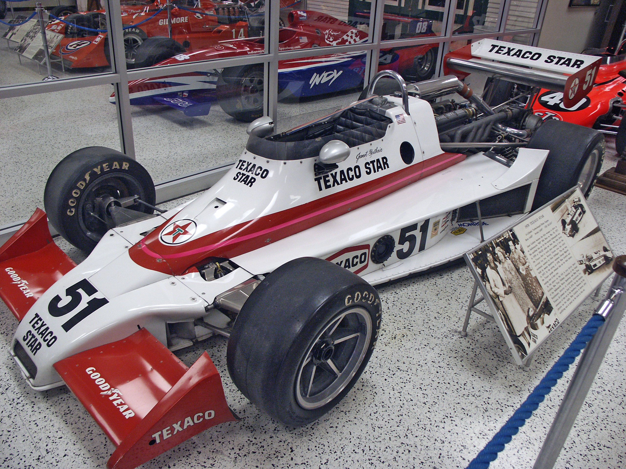 Janet Guthrie, the first woman to start the Indianapolis 500, made her second Indy appearance in 1978, finishing ninth in this Wildcat 3-DGS.